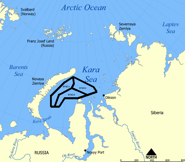 Location of the EPNZ-1, EPNZ-2 and EPNZ-3 oil and gas areas in the South Kara Sea. Based on